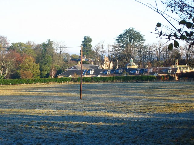 Keith Marischal. Collection of buildings around a 16th century house and even older chapel.